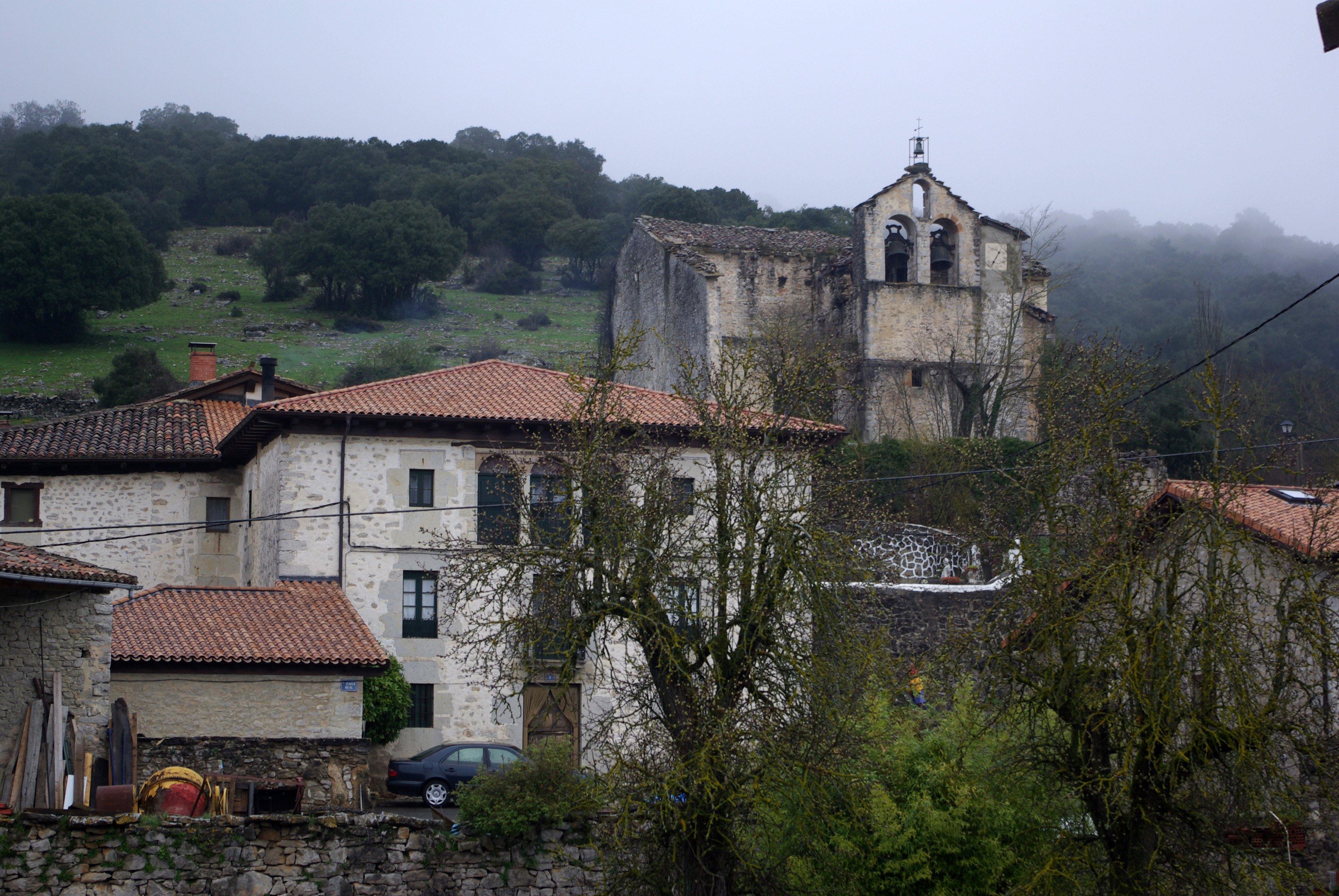 Cárcamo with its parish church of the Assumption, Valdegovía/Gaubea (Álava, Spain)